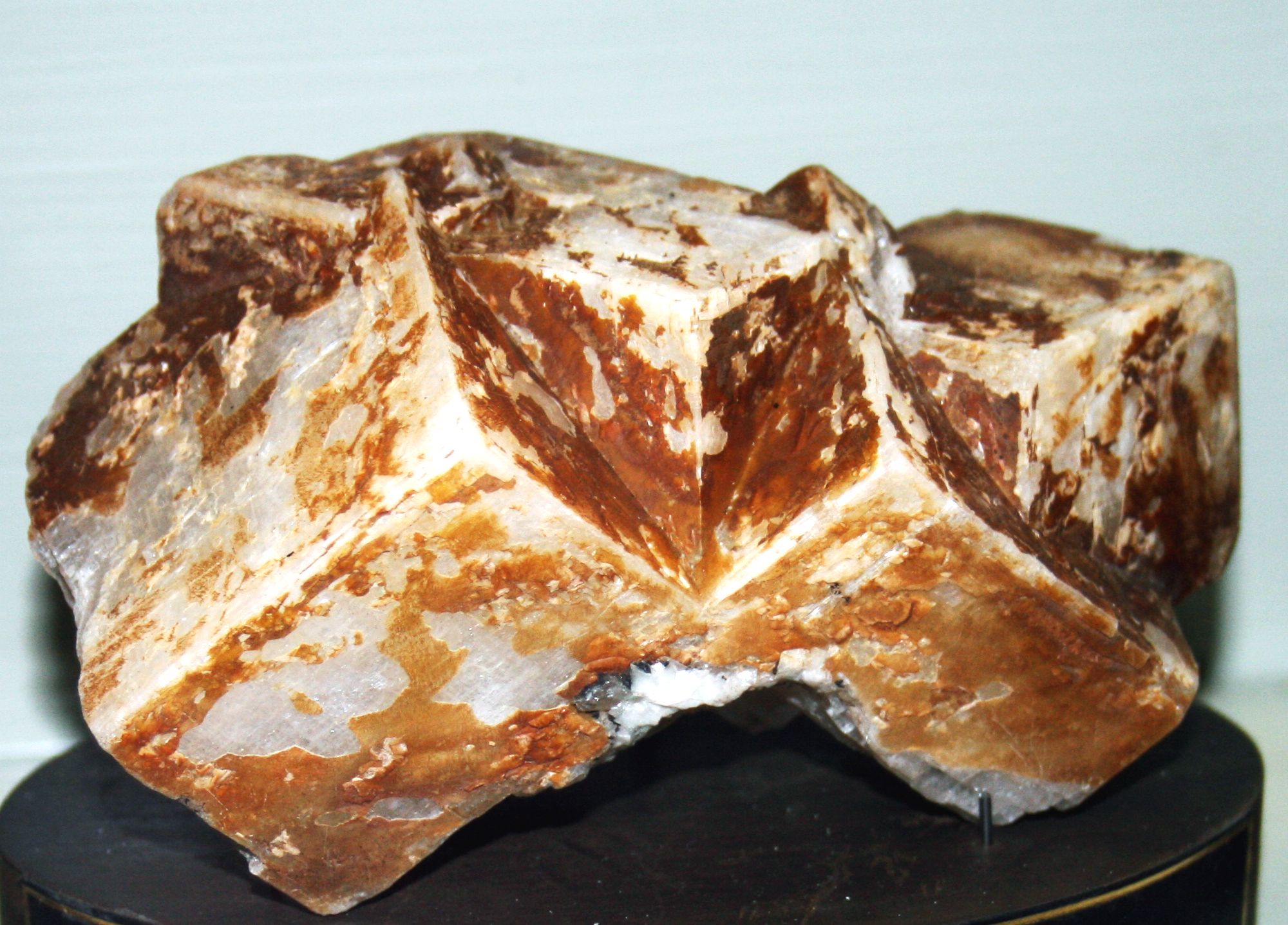 Mineral dolomite from collection of National Museum, Prague, Czech Republic, originally from Italy